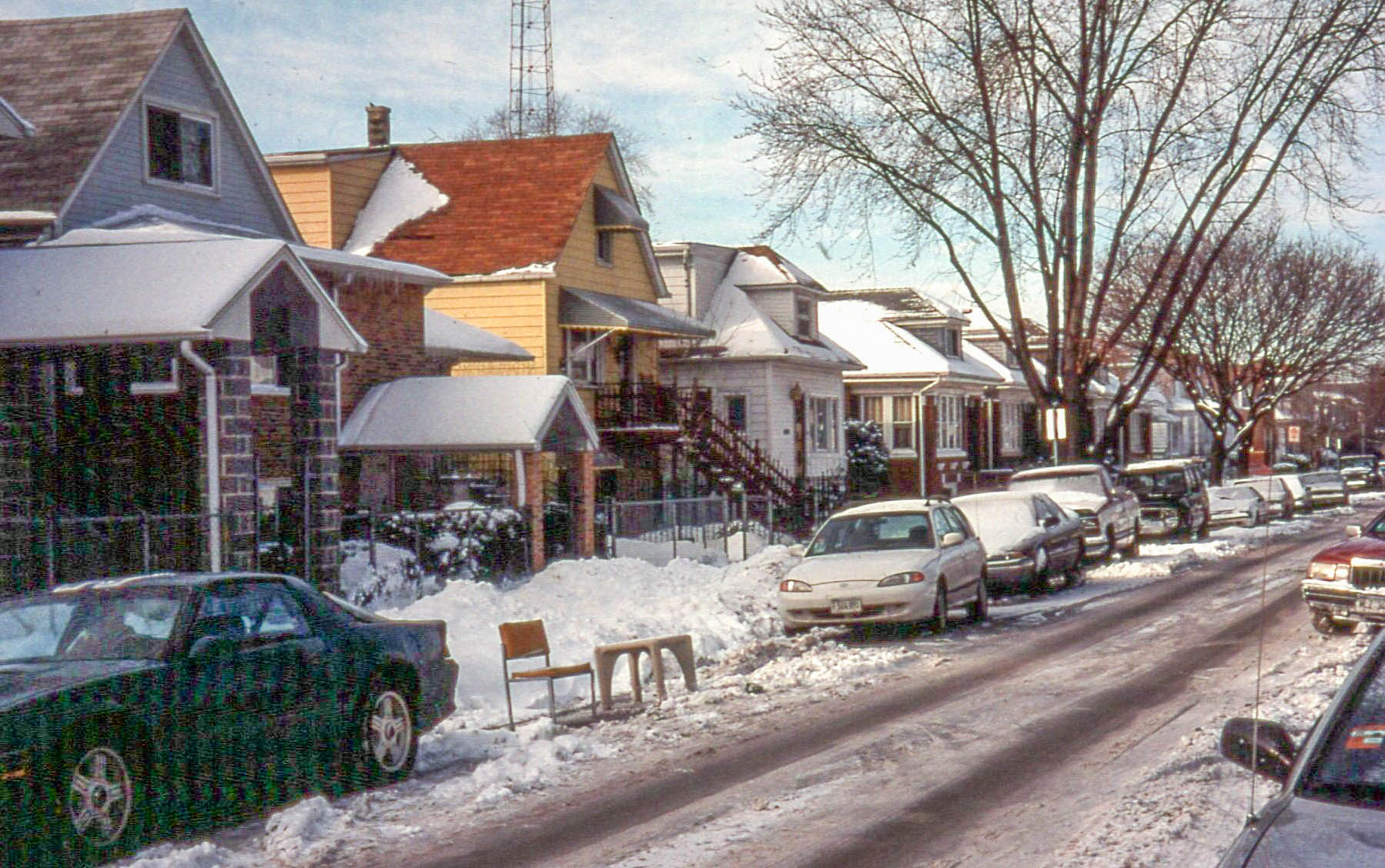 20000128 02 Chairs protecting parking place, Chicago Chicago